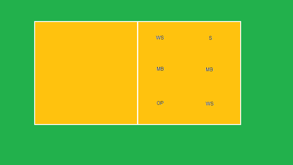 court of volleyball